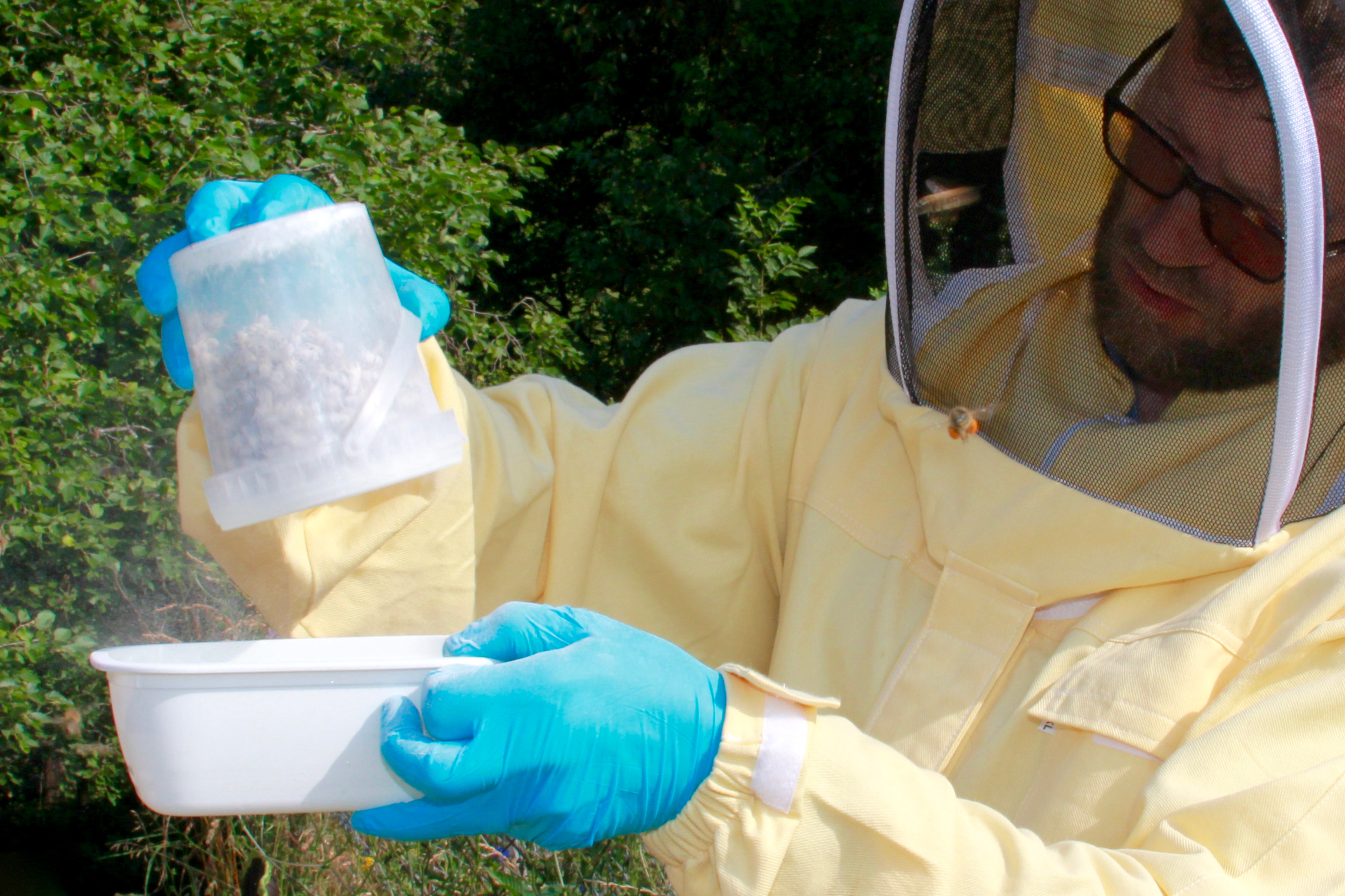 The Powdered Sugar Sampling to monitor Varroa mite populations in Honey Bee colonies is simply quickly and accurately.